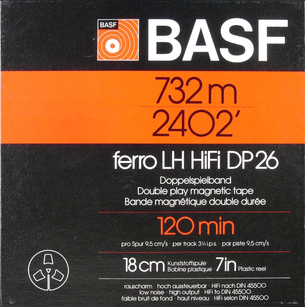 Box with coil of magnetic tape for tape recorders